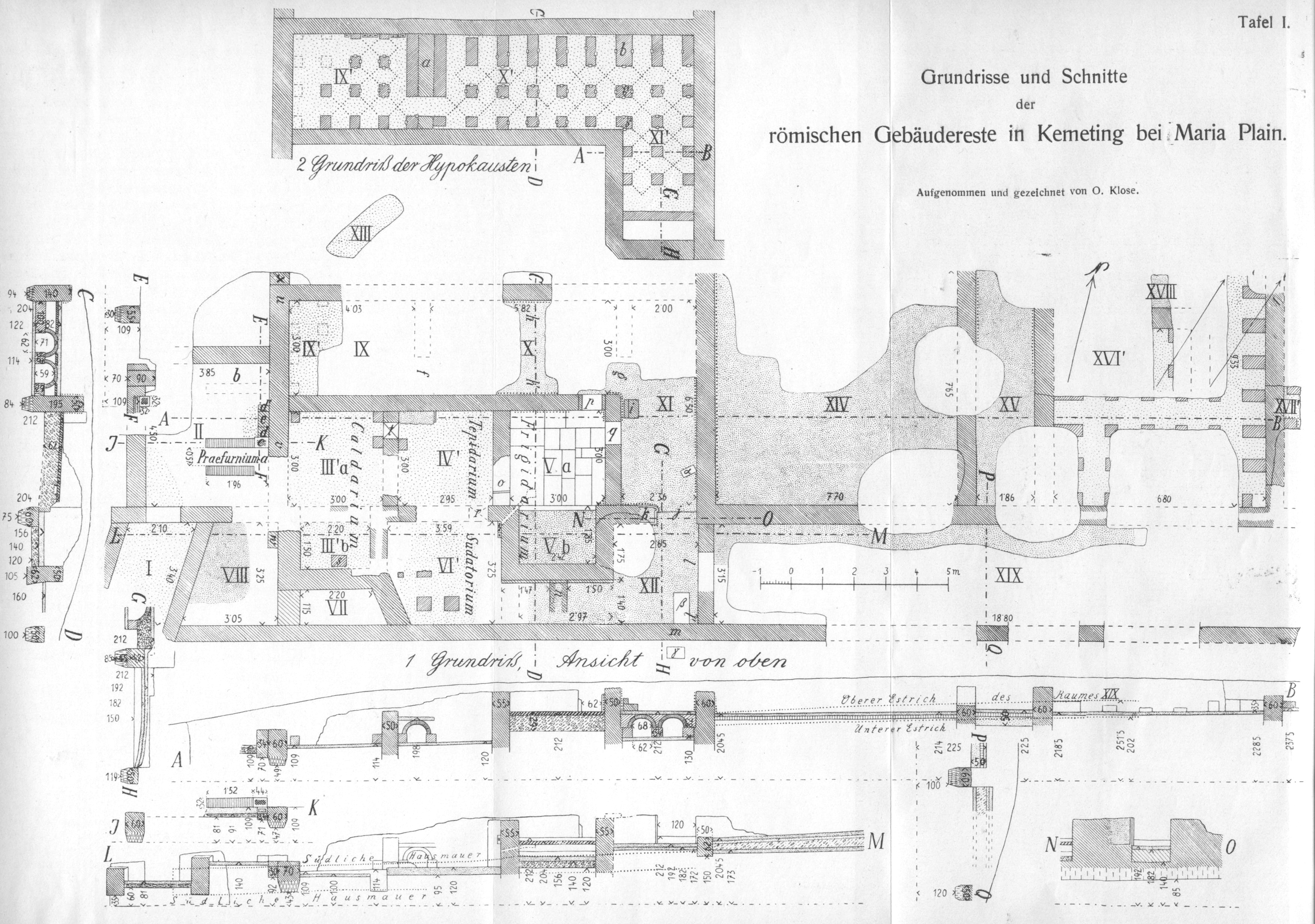 The picture shows the scanned plan of an ancient Roman villa in Kemating on the mountain Plainberg, municipality of Bergheim, state of Salzburg, Austria. It was drawn by the archaeologist Oliver Klose (1860-1933) and published in the annual scientific journal Mitteilungen der Gesellschaft für Salzburger Landeskunde, Salzburg 1925 (pull-out paper between pp. 80-81). The villa dates back to the second half of the 3rd century and was owned by a person named L. Vedius Optatus. The foundation walls of the building were discovered in 1907 and have temporarily been excavated only for documentary reasons.